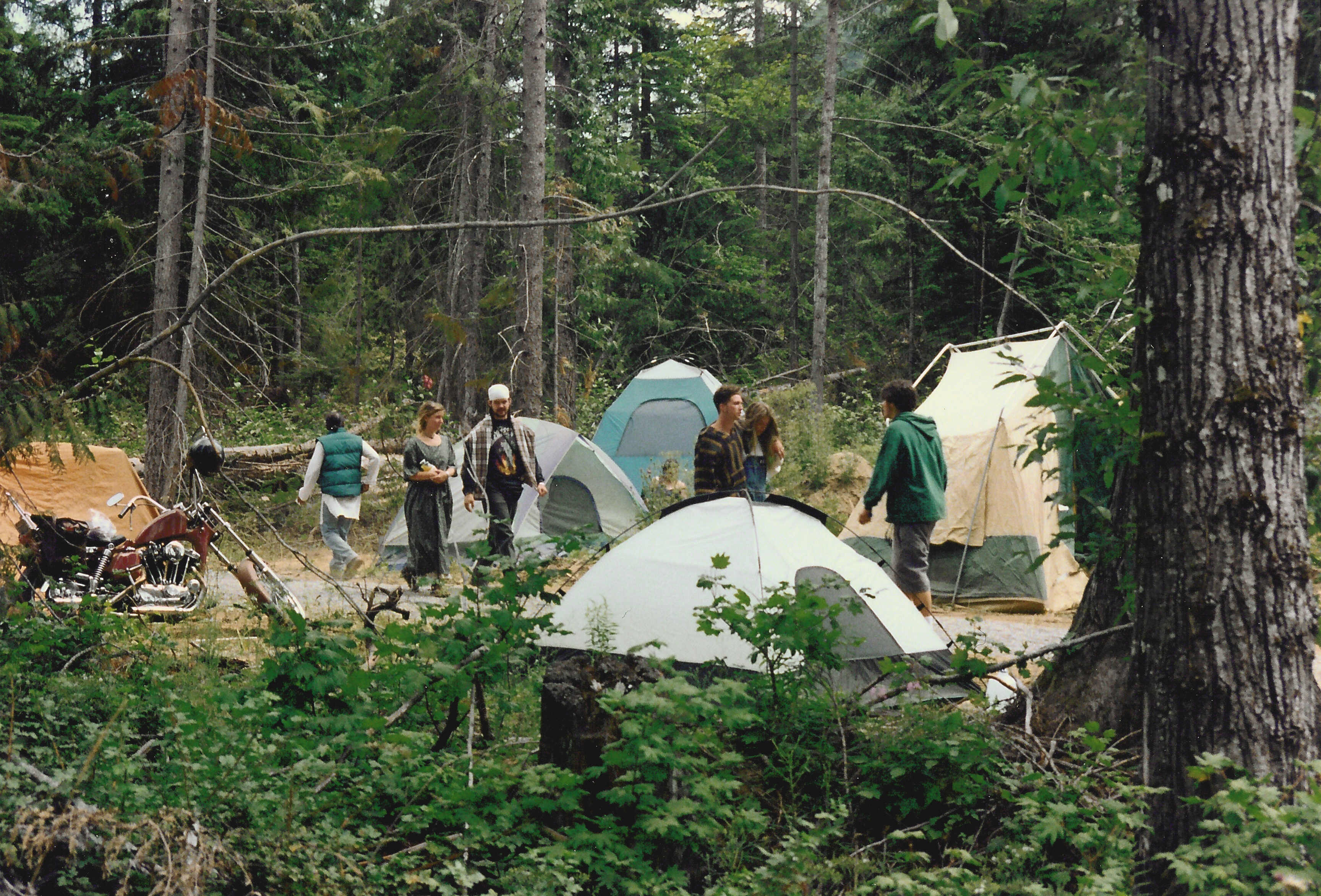 Encampment, Starlight Mountain Festival.